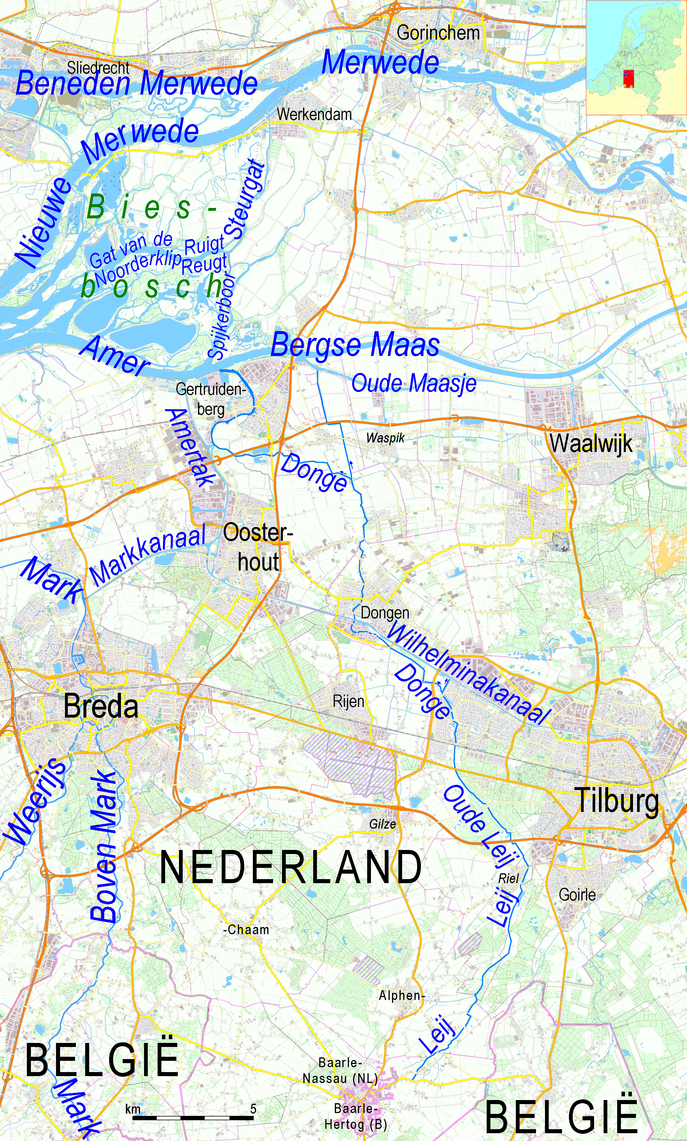 River Donge in North Brabant with its upper course, called Leij This map may be incomplete, and may contain errors. Don't rely solely on it for navigation.